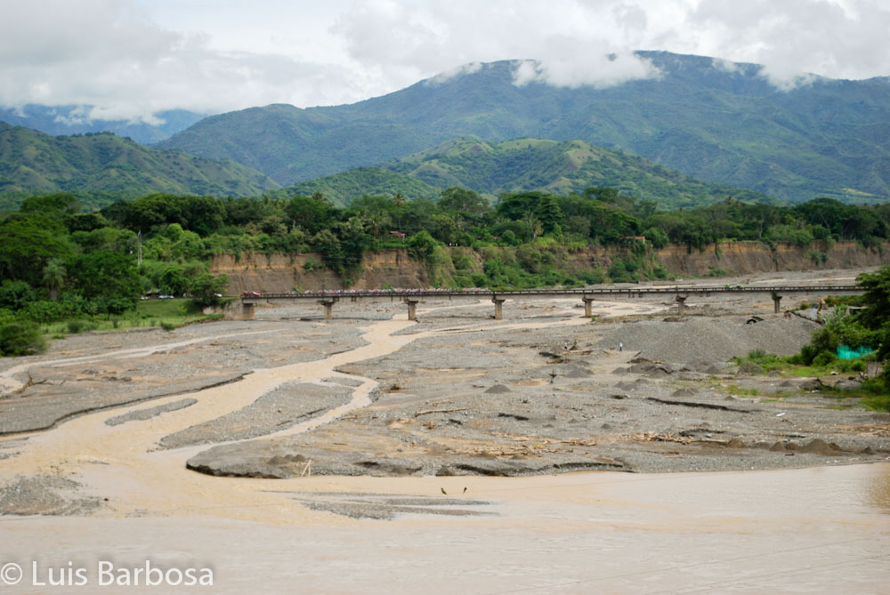 Jueves 24 de mayo de 2012. Santa Fe de Antioquia - San Félix 86Km Foto: ©Luis Barbosa